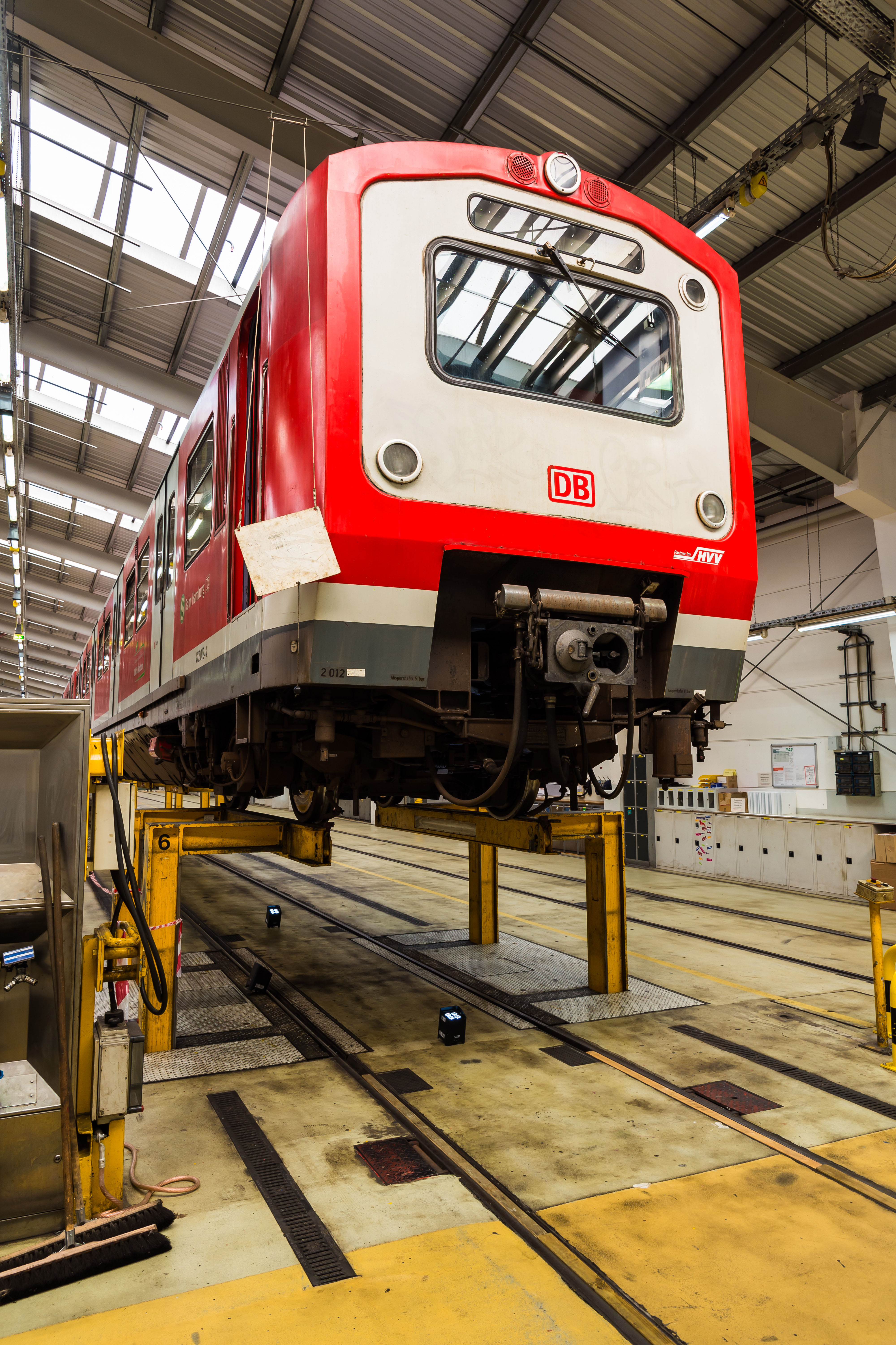 Class 472 trainset from the Hamburg S-Bahn on a lifting device at the maintenance workshop in Hamburg-Ohlsdorf.